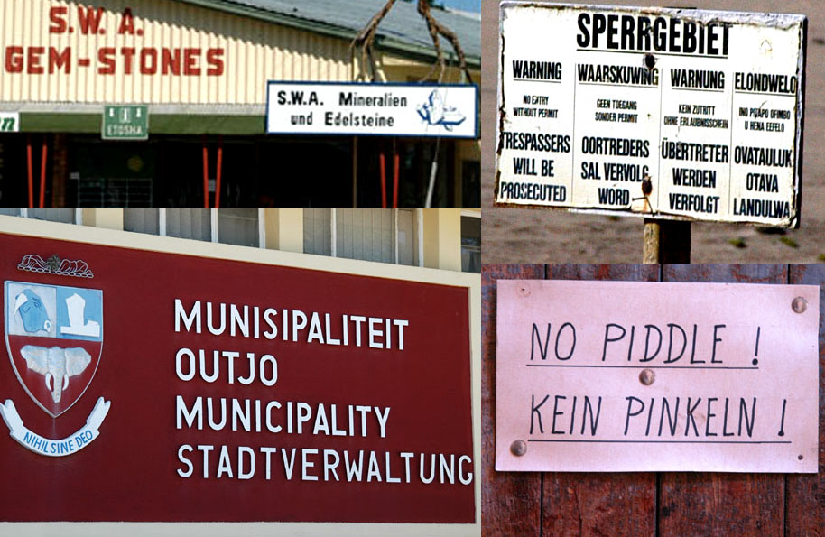 Samples of multilingual signage in Namibia. Collage of photos from Outjo (left side), Lüderitz (upper right corner) and Kolmannskuppe (lower right corner).